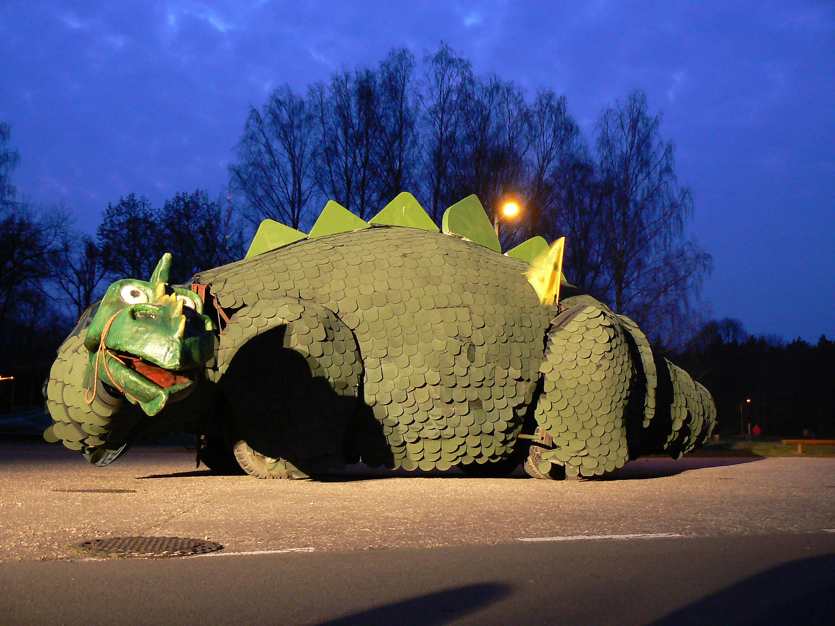 FiDi 40 festival (Physicist's Day) at Vilnius University Faculty of Physics. Main festival character - Dinas Zauras.